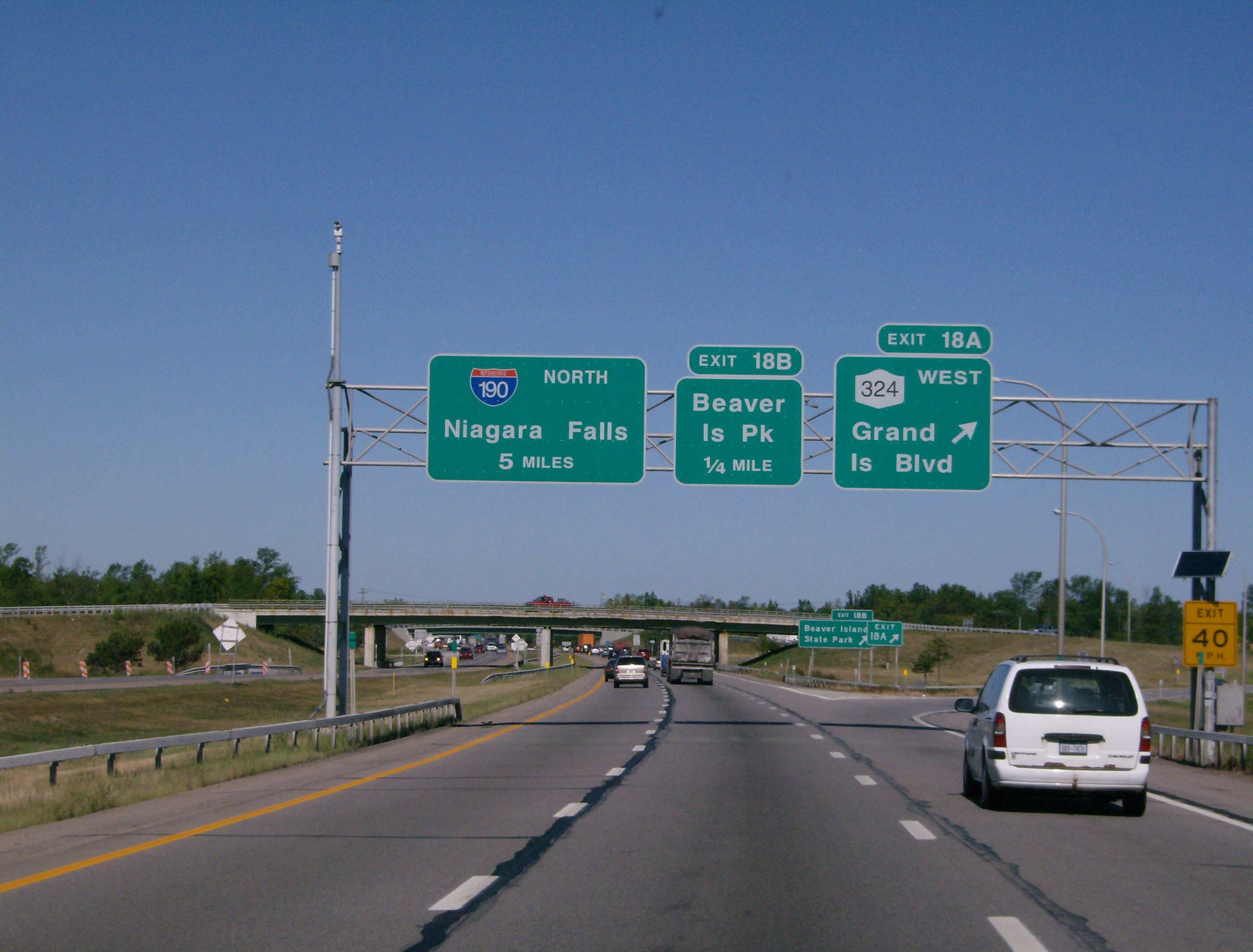 Interstate 190 northbound at exit 18A (New York State Route 324) on Grand Island.